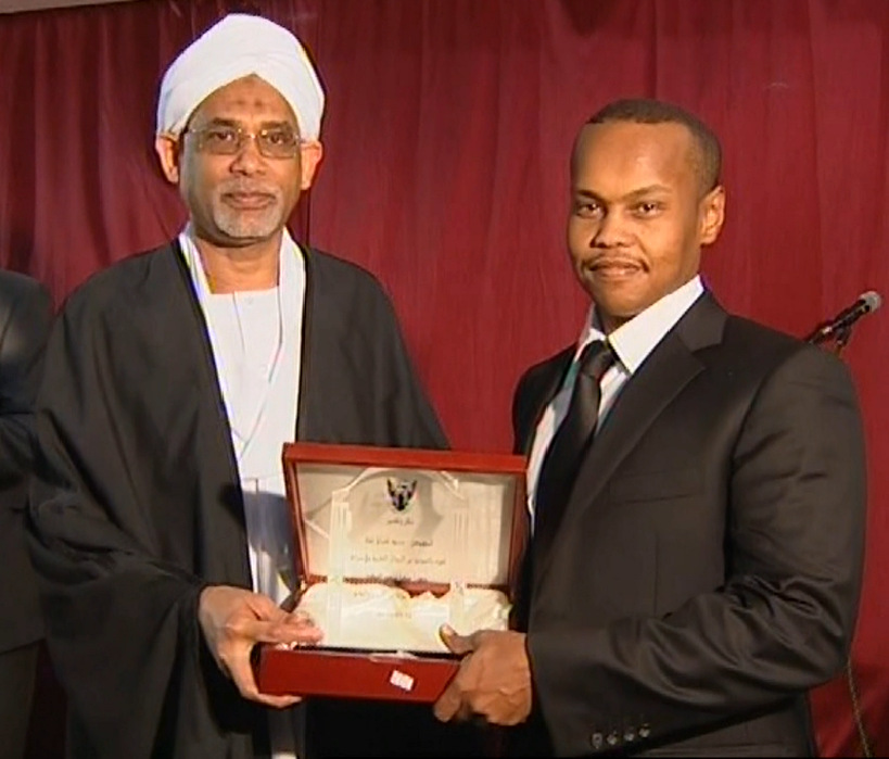 Honor by the Sudanese Ambassador / Ahmed alsadeeq Abdulhai – Sudan Ambassador in UAE – On celebrations of Sudan's 56th Independence Day.2012